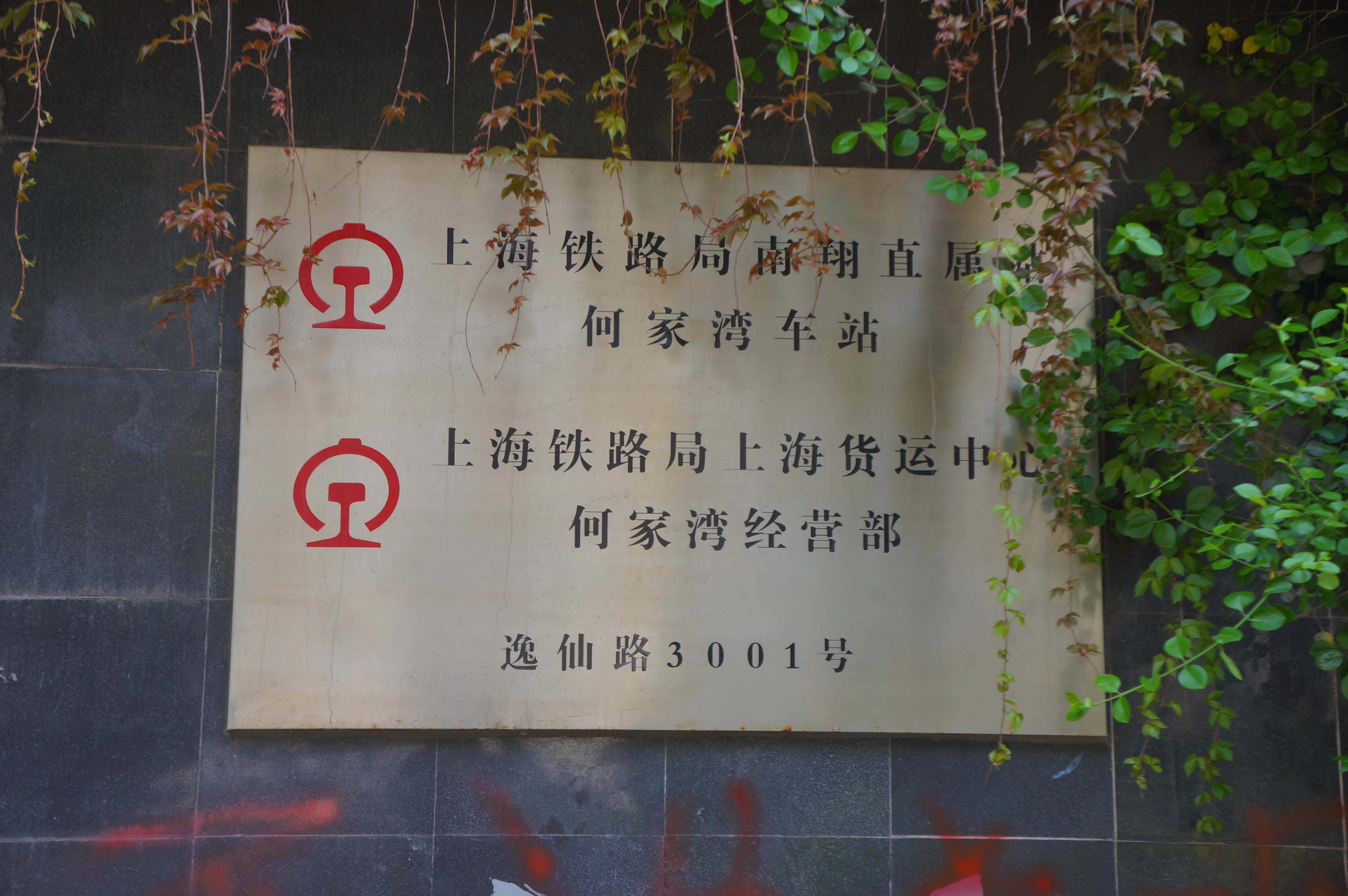 201704 Hejiawan by Traffic Section of Nanxiang-Stations